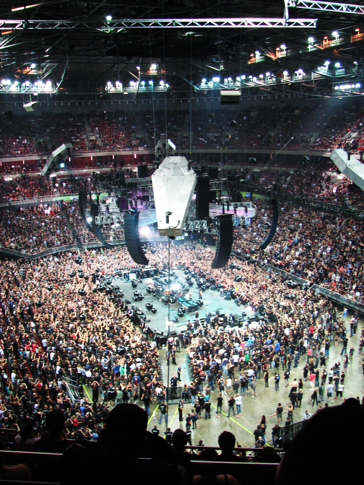 During encore - Seek and Destroy